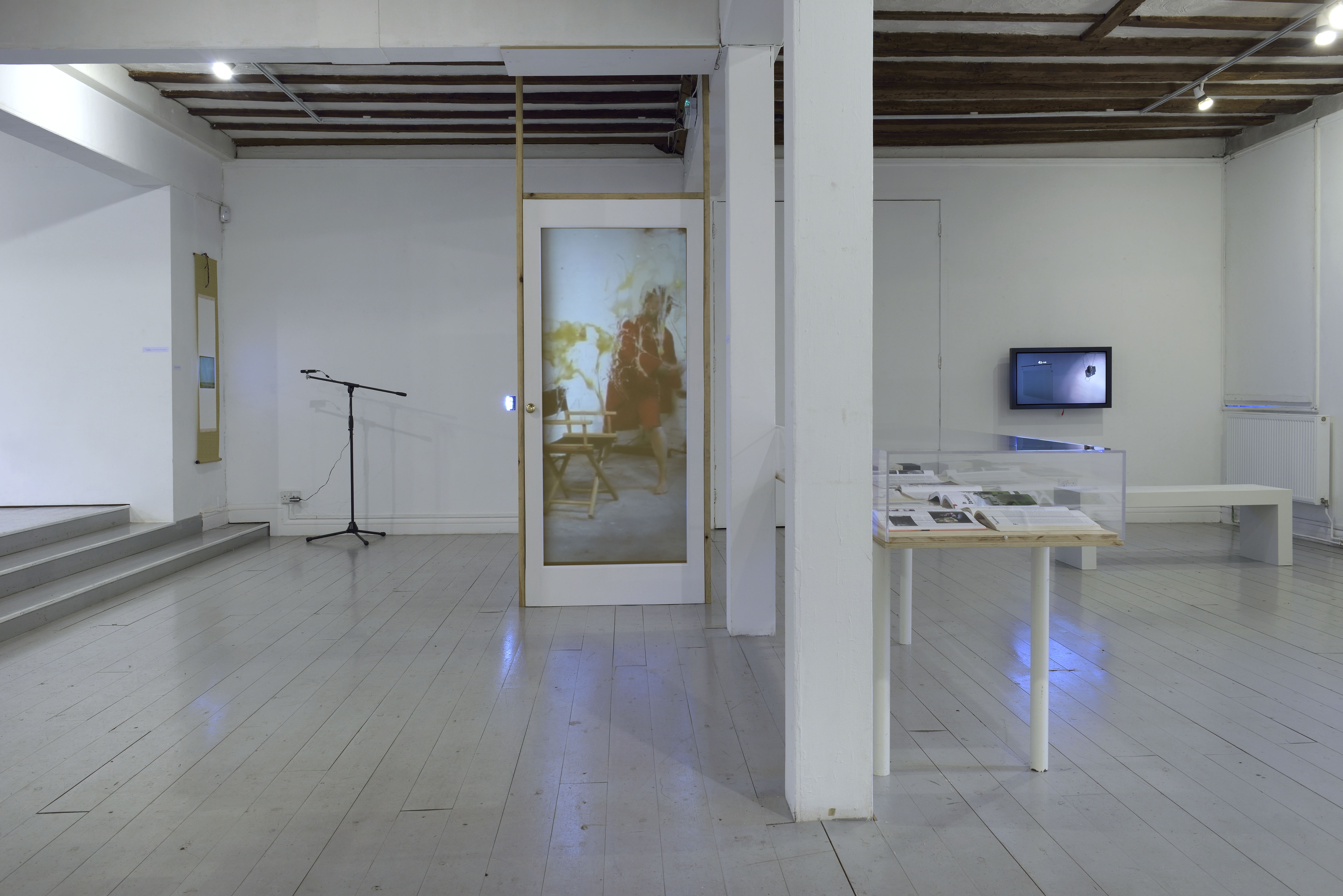 Installation view from Chris Meigh-Andrews' exhibition 'Sculpting with Light & Time: Video and Installations 1978-2014', at The Minories Galleries from 08.11.2014 to 03.01.2015